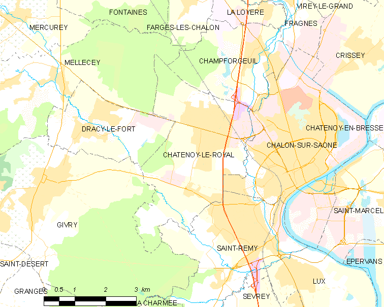 Map of French municipality